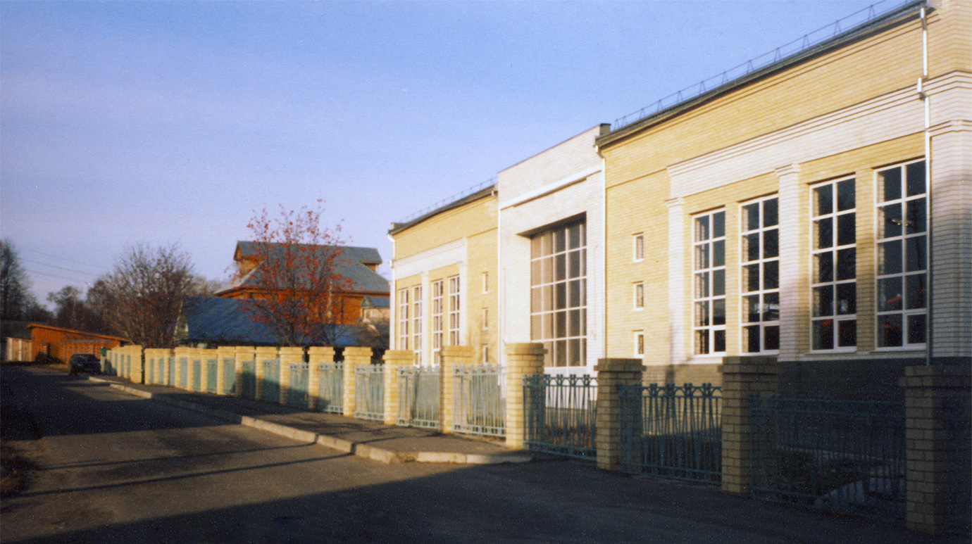 Hangar of Chkalov's planes